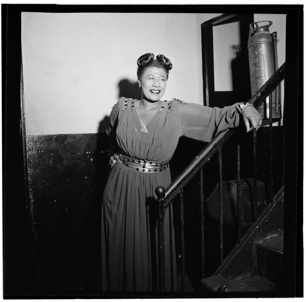 Ella Fitzgerald, New York